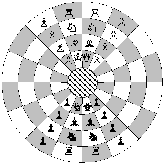 Depicts the starting position of the pieces for the historical variant of circular chess known as "al-Muddawara", "ar-Rûmîya", or "Byzantine chess".